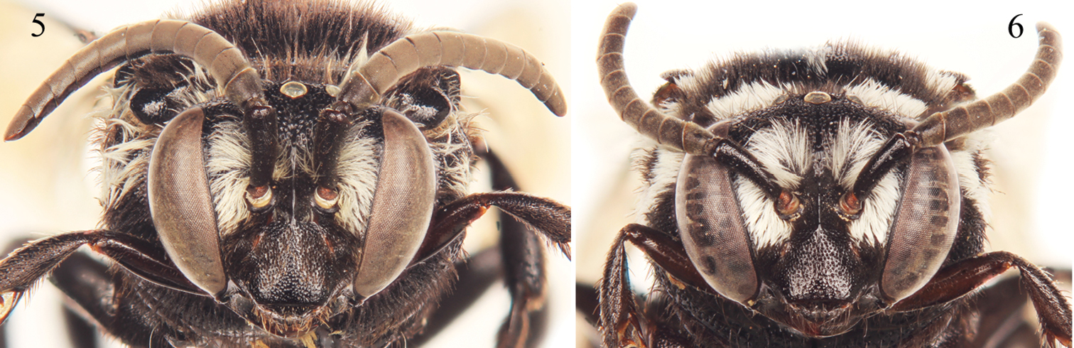 Facial aspect of Thyreus denolii from Boavista (facial views for the various species do not really vary and so only those for Thyreus denolii are presented). 5 Male 6 Female.